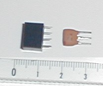 Ceramic filters